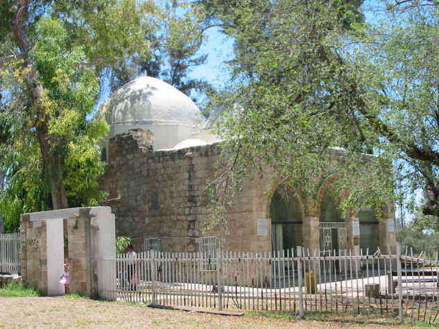 Tomb of Raban Gamliel in Yavneh